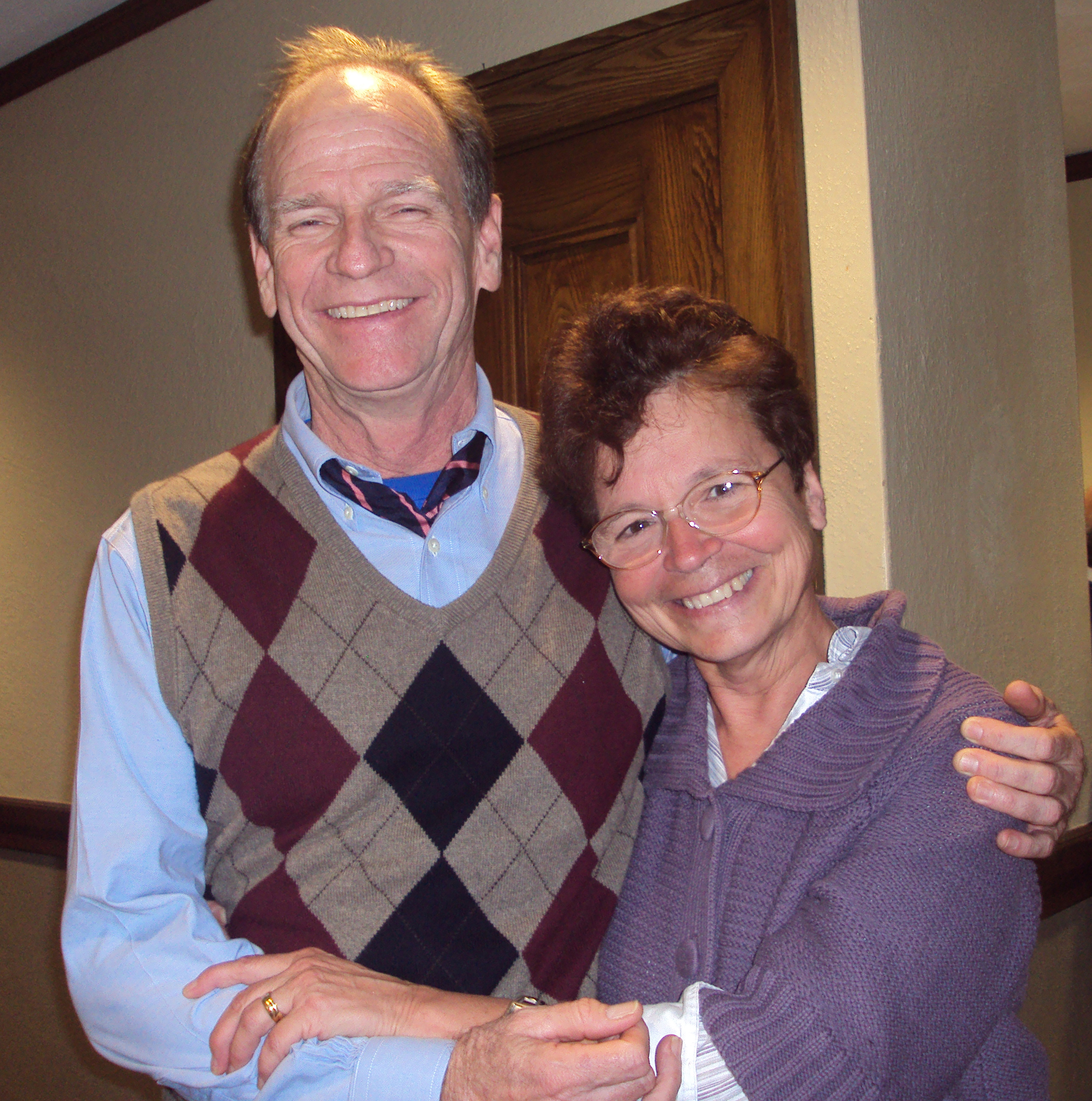 Livingston Taylor and Judy Hurley Stone Soup Coffee House Pawtucket RI October 30, 2010